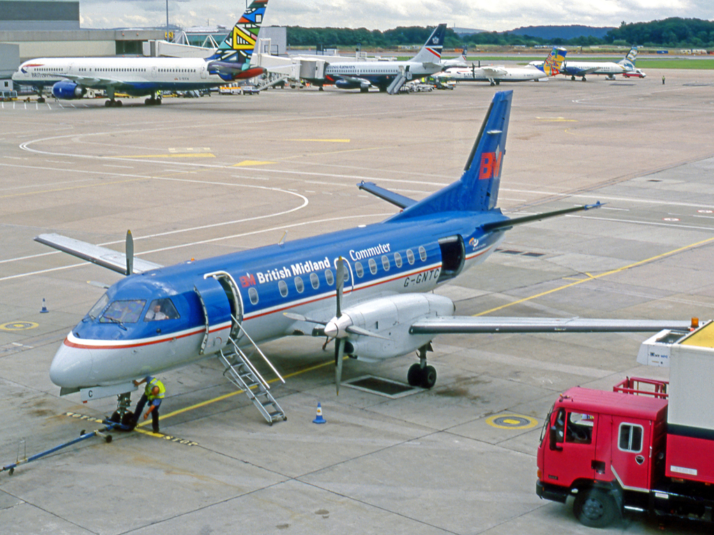 Saab SF.340A G-GNTC of British Midland Commuter at Manchester Airport in 1998